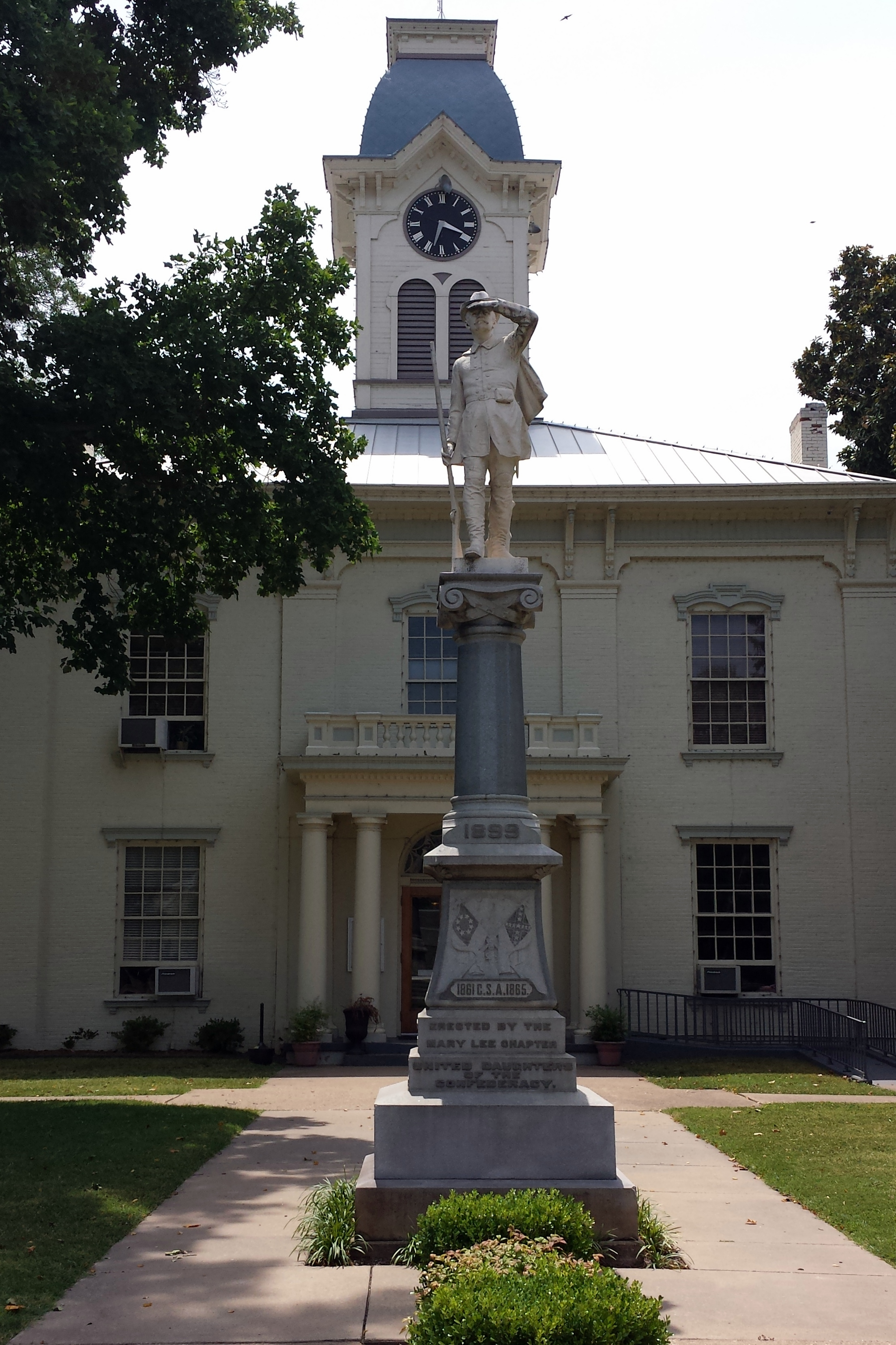 Front of the courthouse with confederate monument